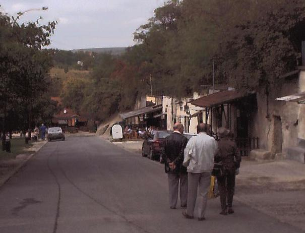 Valley of the Beautiful Women - Eger, Hungary (Szépasszonyvölgy), outside of Eger, Hungary